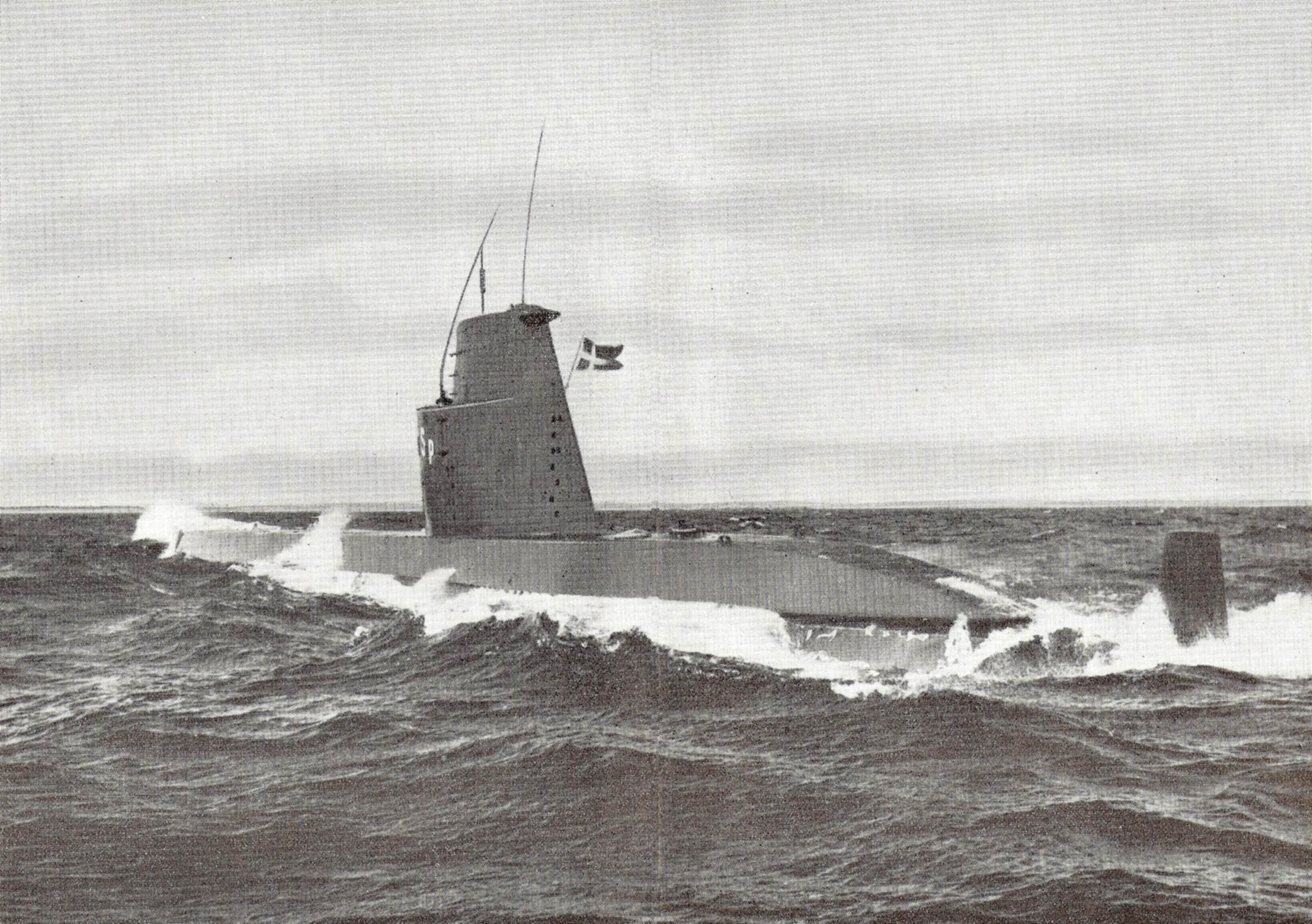 The Swedish submarine HMS Springaren, commissioned in 1962 and decommissioned in 1987.Capture: HMS Springaren, the latest swedish submarine, "dressed to fight".